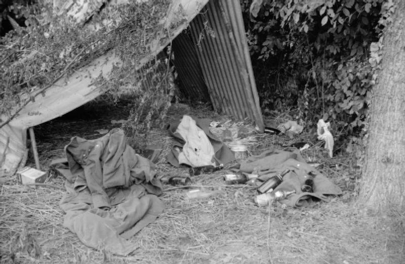 The British Expeditionary Force (bef) in France 1939-1940 British troops on the Somme Front: A captured German trench near Huppy on the Somme front littered with looted champagne bottles.